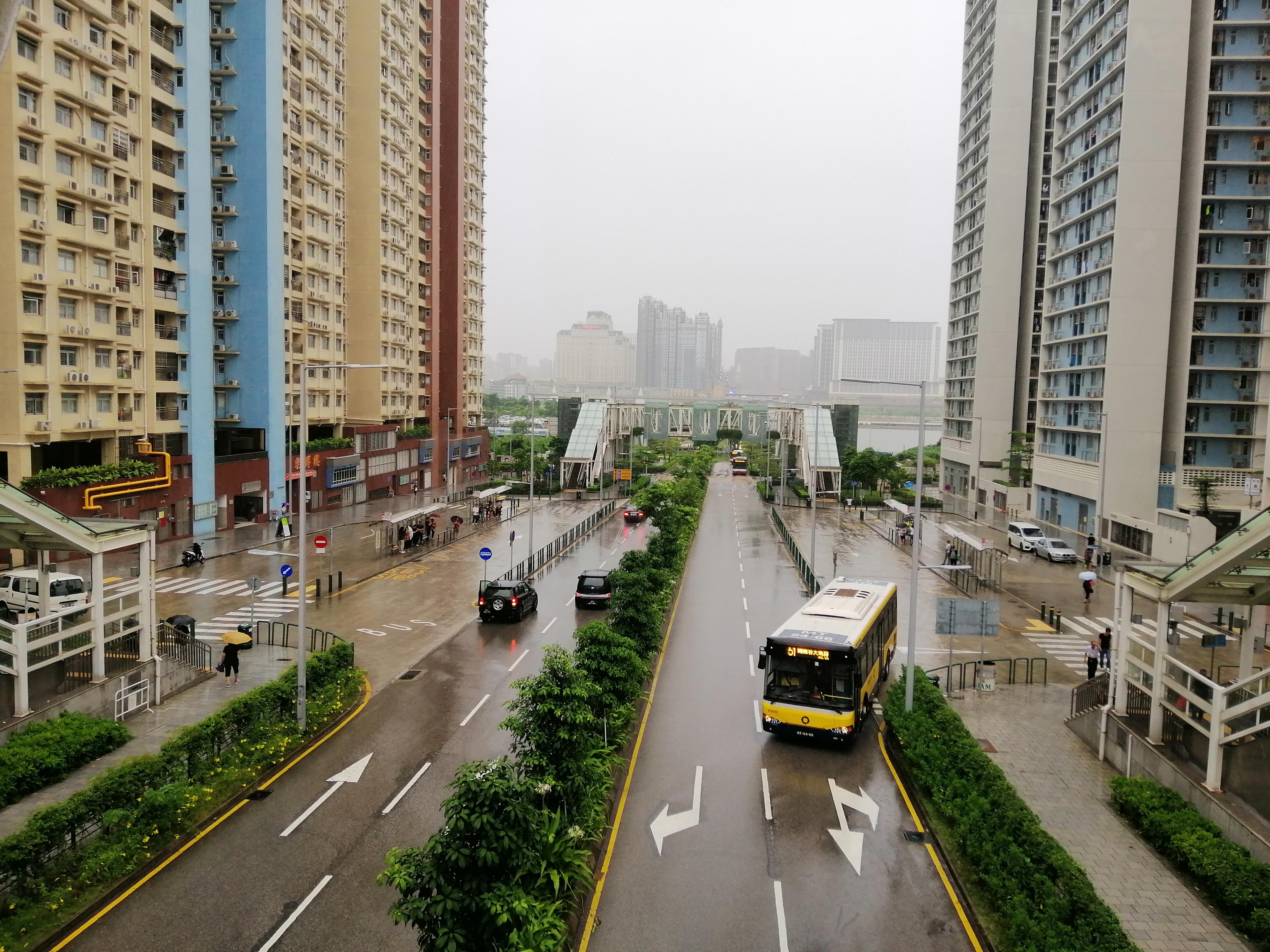 macau bus